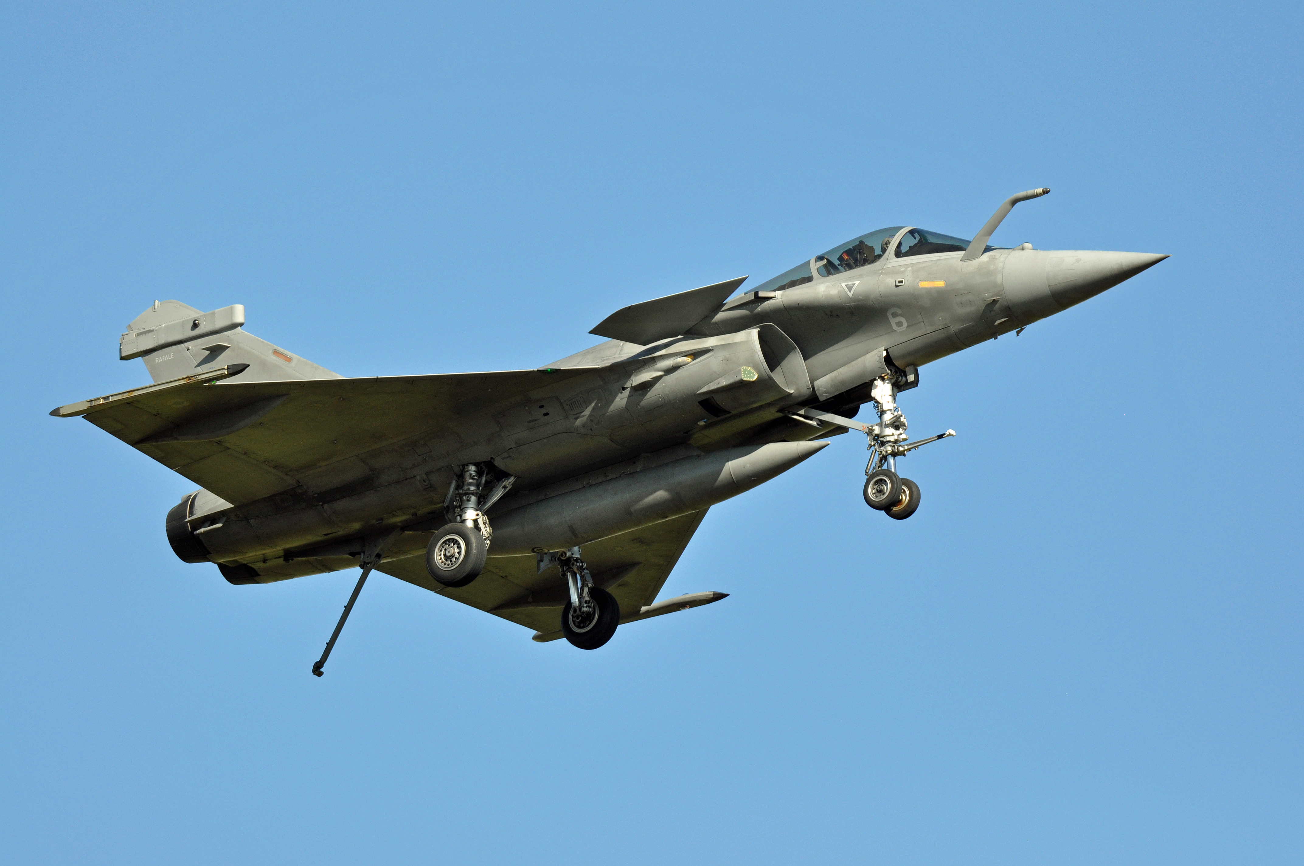 LFPM AIRPORT